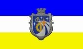 Flag of Veselivskyj district (Ukraine)